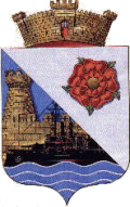 Coat of arms for the Horten Kommune en Norway.